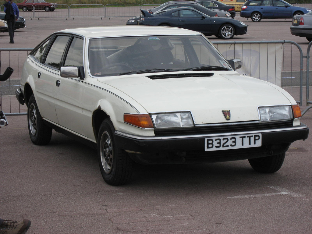 Rover sd1 club day at the British motoring heritage museum gaydon . reg B323 TTP